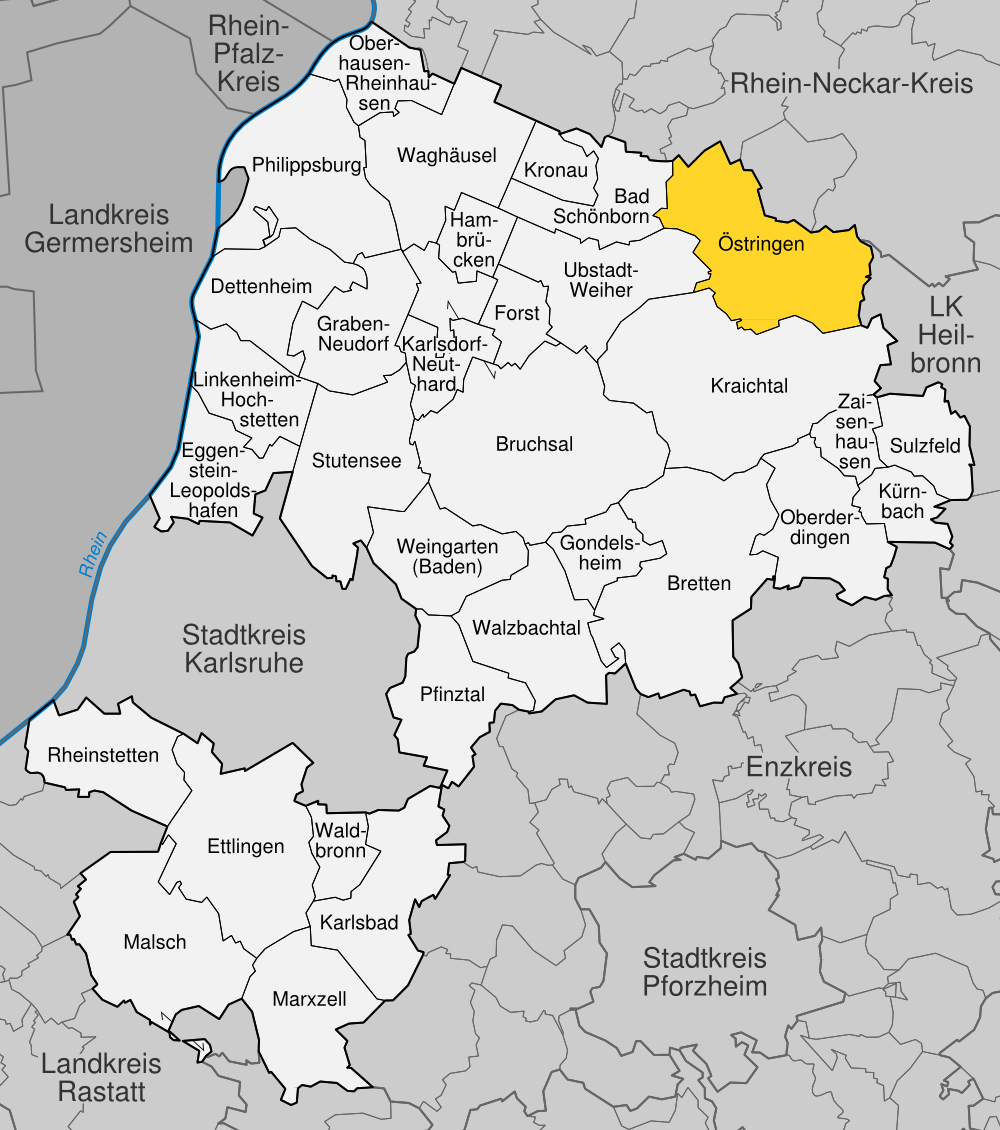 position of Östringen within distict of Karlsruhe, Baden-Württemberg, Germany